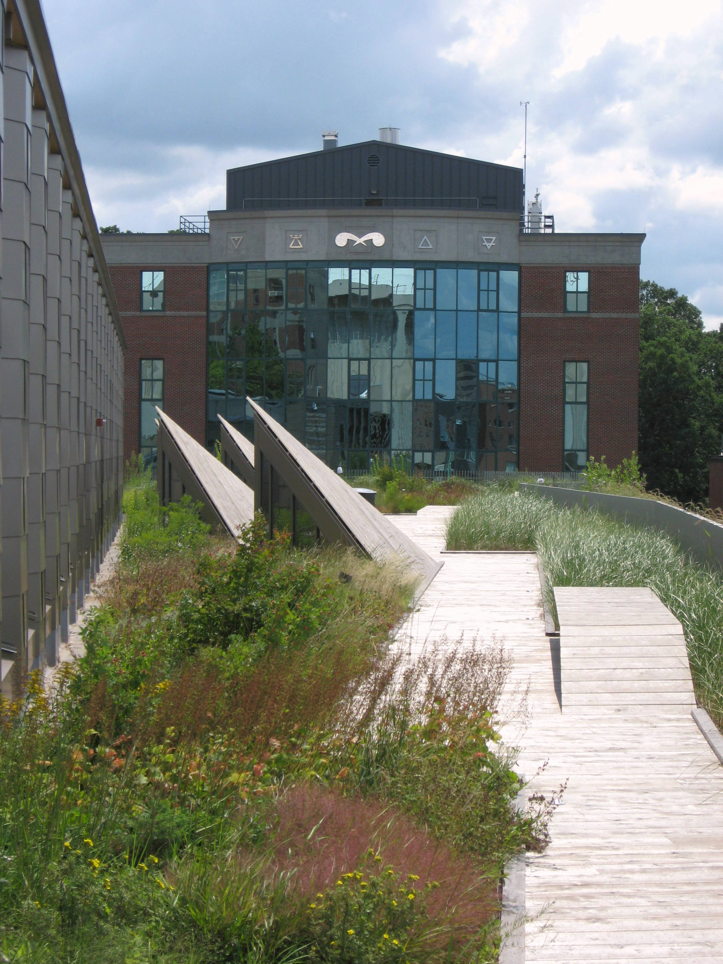 Green roof on Gateway Center, with Jahn Laboratory in background. Planted with dune plants from the shores of Lake Ontario, New York. SUNY College of Environmental Science and Forestry, Syracuse, NY